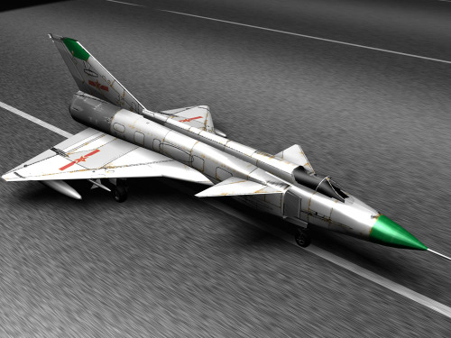 Drawing of the canceled Chengdu J-9